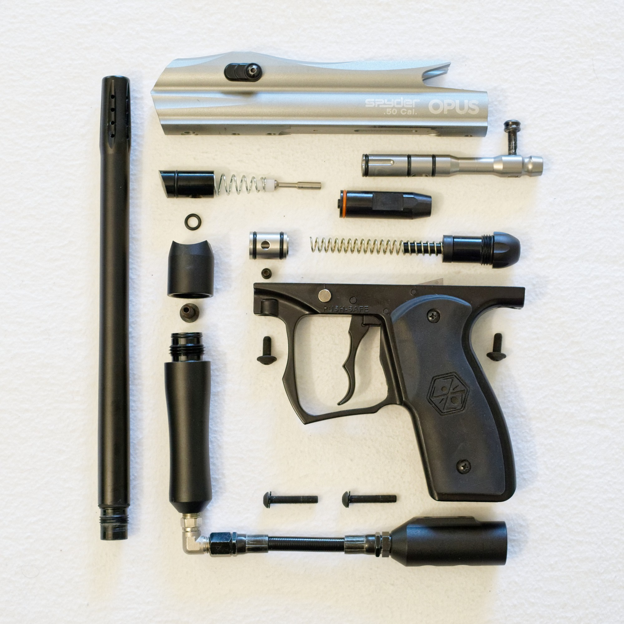 A Spyder 50 caliber paintball gun in a state of full disassembly, save for trigger internals.